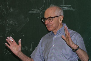 Professor Serge Lang lecturing for Math Club at the Louisiana State University in Baton Rouge, Louisiana, on March 8, 2004. Photograph by Bogdan Oporowski.